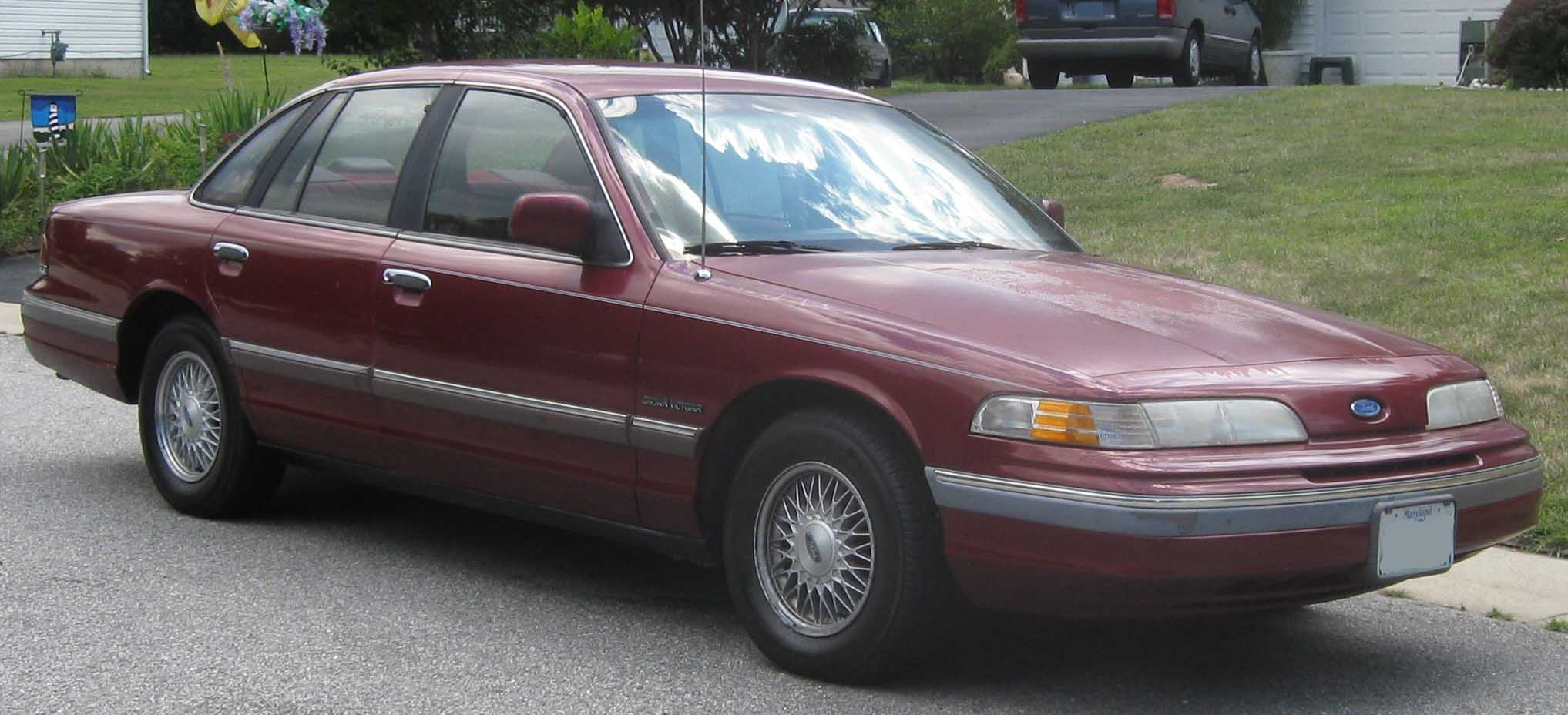 1992 Ford Crown Victoria photographed in Waldorf, Maryland, USA.